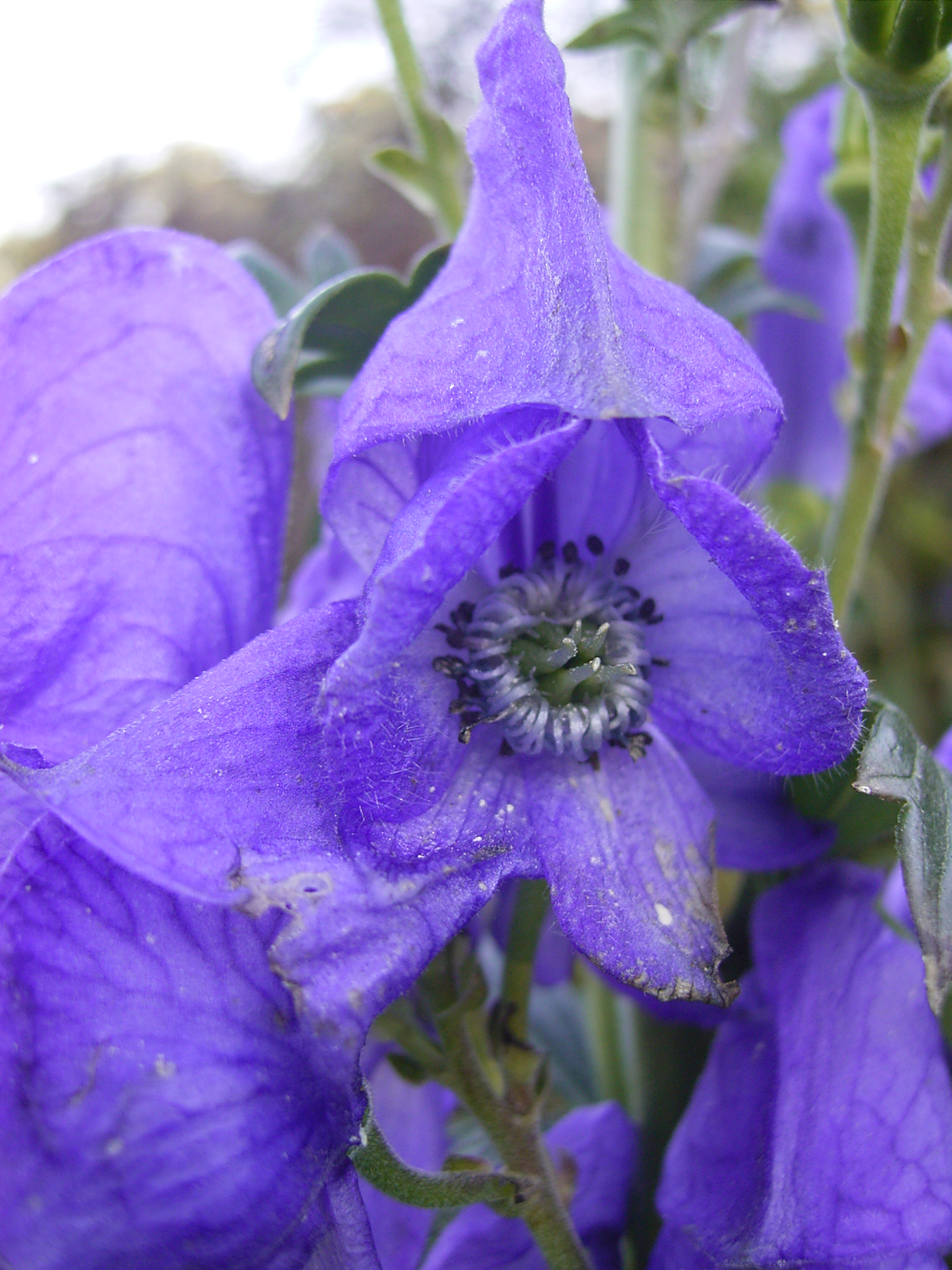 Deze foto toont een closeup van een bloem van de Aconitum carmichaelli 'arendsii'. Ik nam de foto in het Zuiderpark in Den Haag. This photo shows a closeup of a flower of Aconitum carmichaelli 'arendsii'. I took the photo in Den Haag, Nederland.